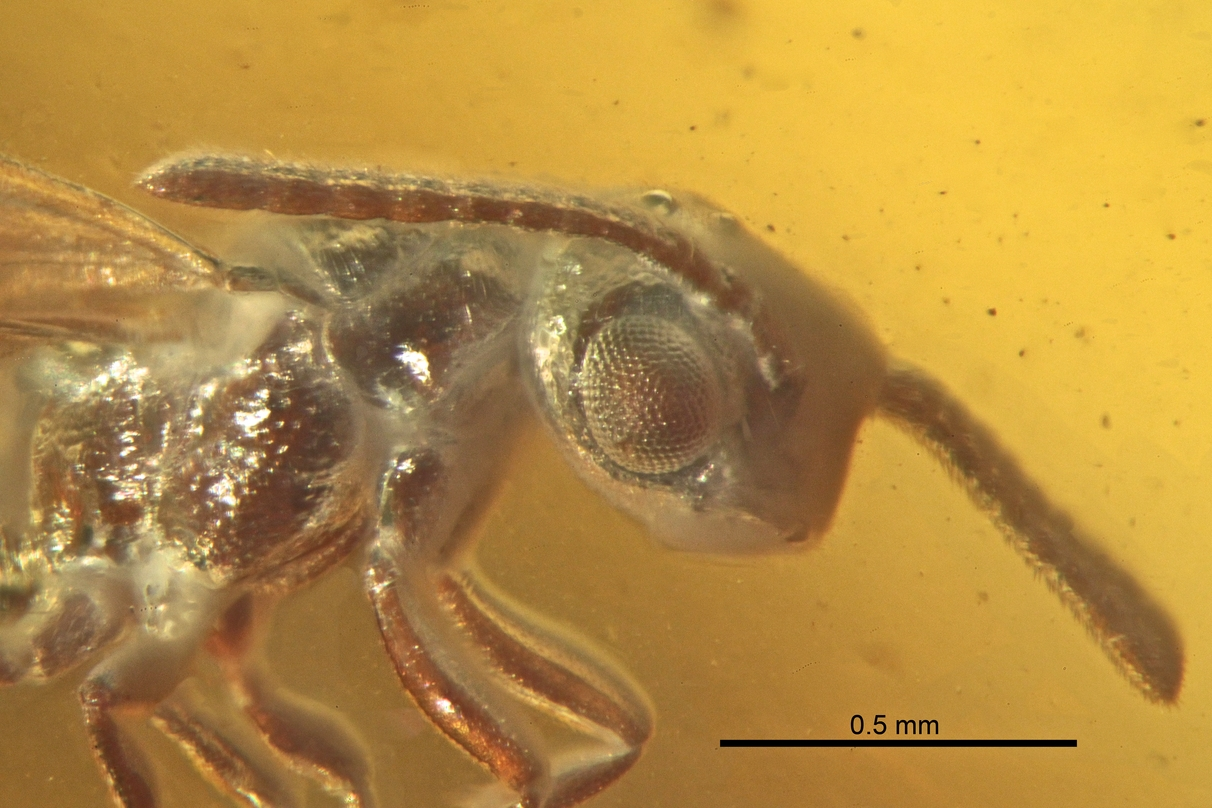 Closeup profile view of the Proceratium eocenicum" paratype male head. Specimen GPIH, no. 4507; Geological-Paleontological Institute and Museum, University of Hamburg Formerly Specimen CGC no.3306; Carsten Gröhn private collection Baltic Amber, Middle Eocene; Samland Peninsula?, Baltic Region, Europe.